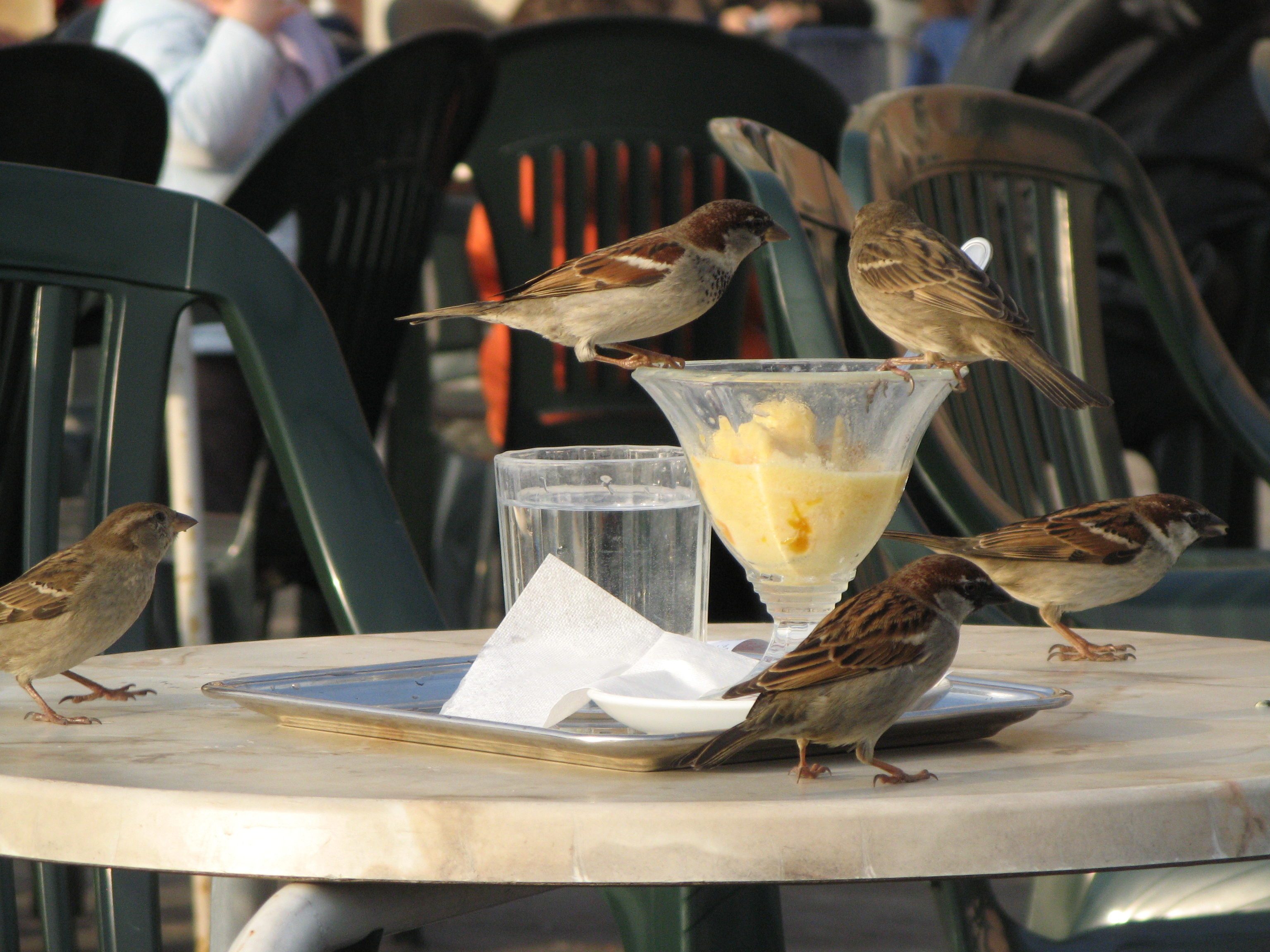 House Sparrows